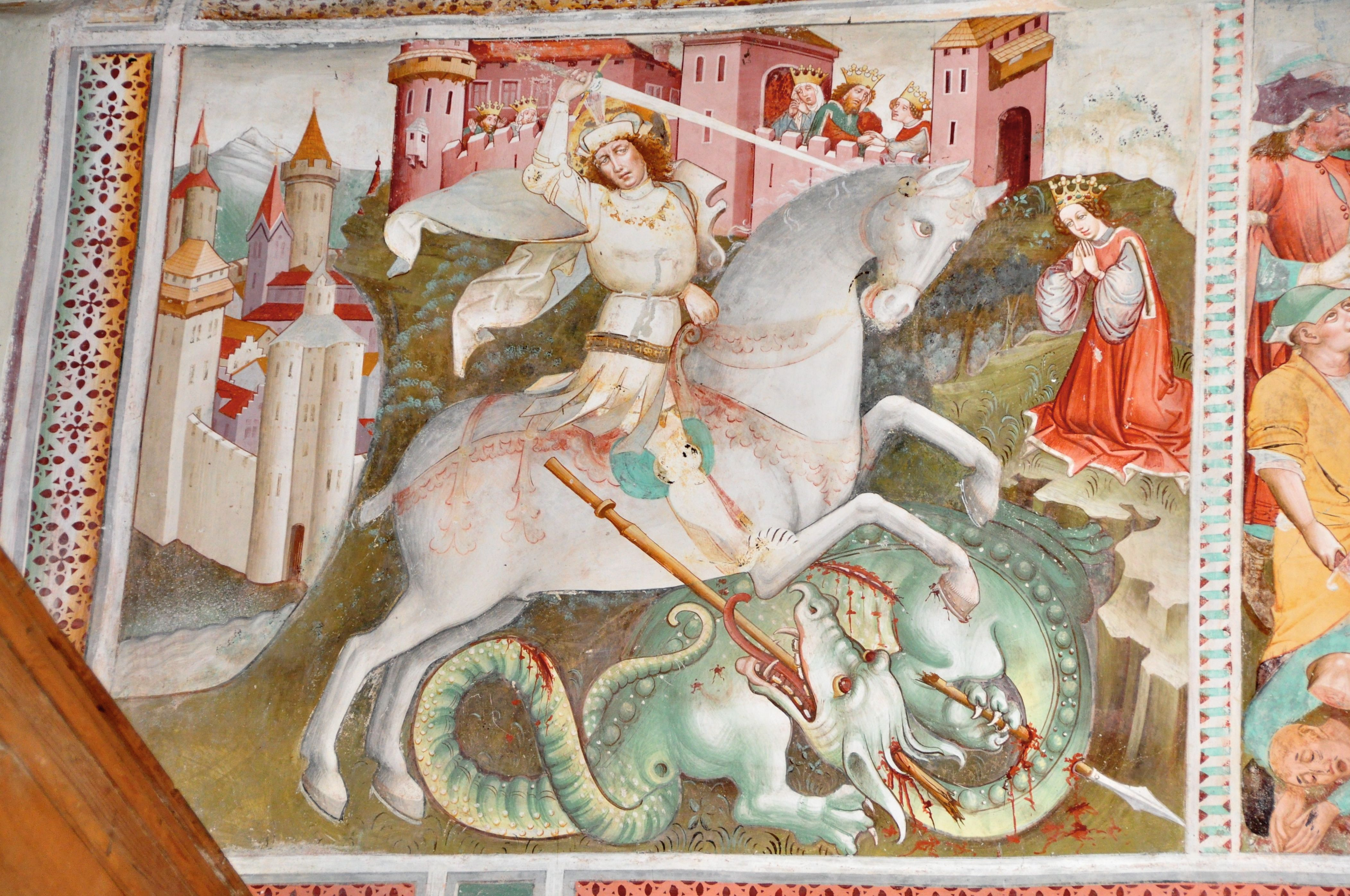 Fresco painting by Thomas von Villach “Saint George and the Dragon” on the interior north wall of the subsidiary church Saint George at Gerlamoos, municipality Steinfeld, district Spittal an der Drau, Carinthia / Austria / EU